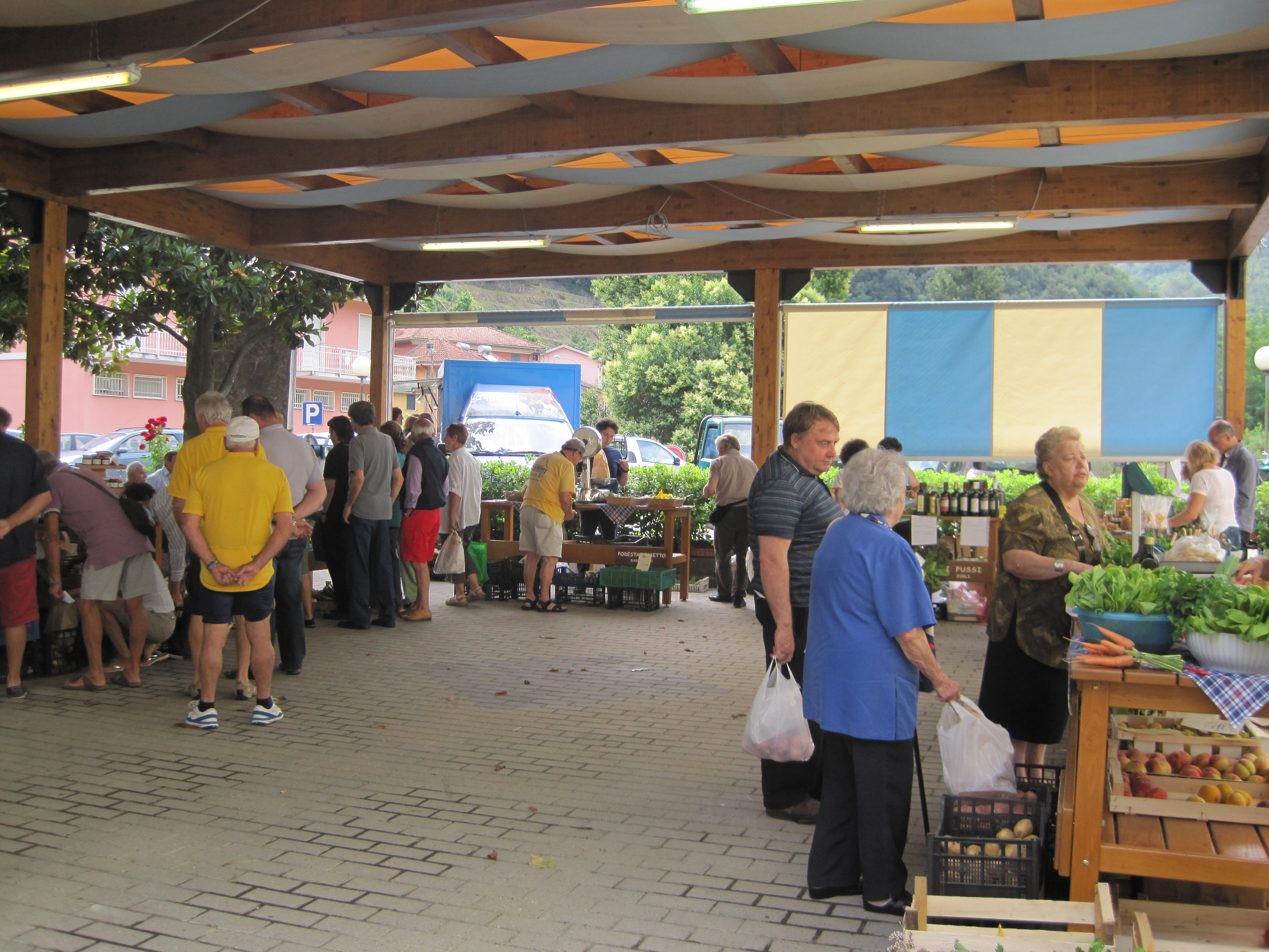 Agricultural produce market in Conscenti, a frazione in the municipality of Ne.